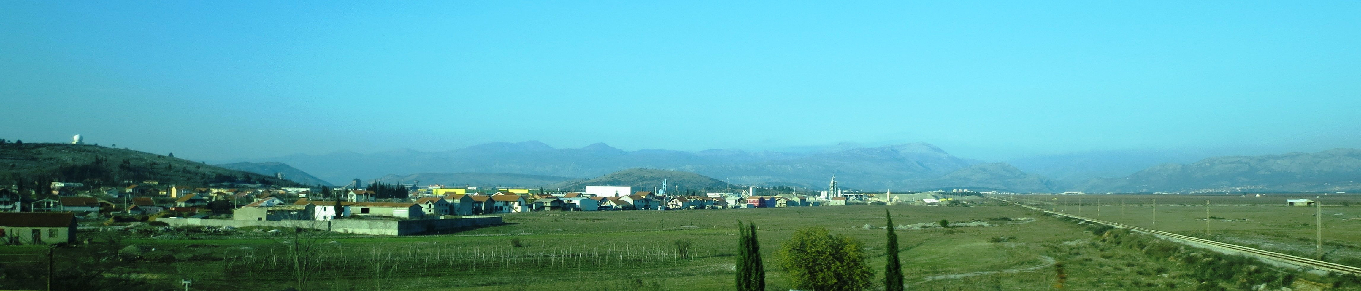 Mitrovići is a village, almost suburb, south of Podgorica city, Montenegro, The main airport is located here.